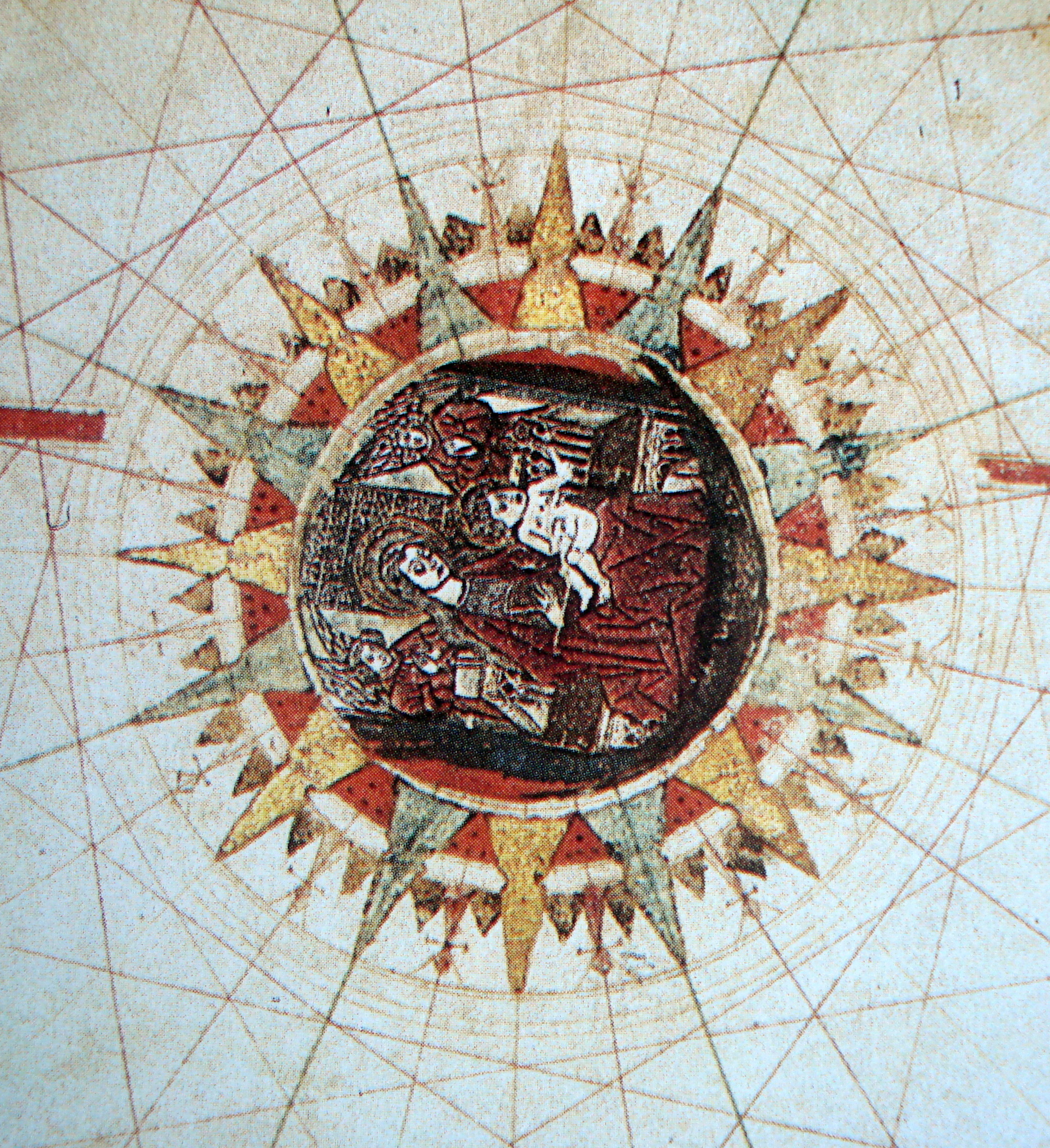 Religious image that decorates the compass rose of the Atlantic in the map of Juan de la Cosa.